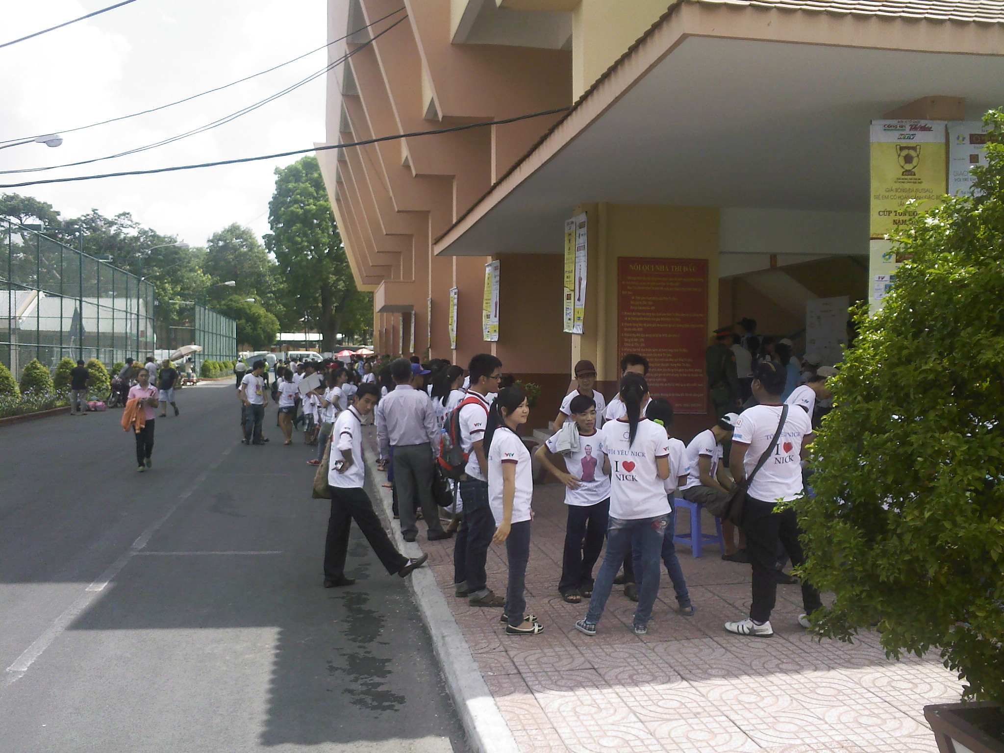 Spectators wait for Nick Vujicic in front of a stadium in Vietnam